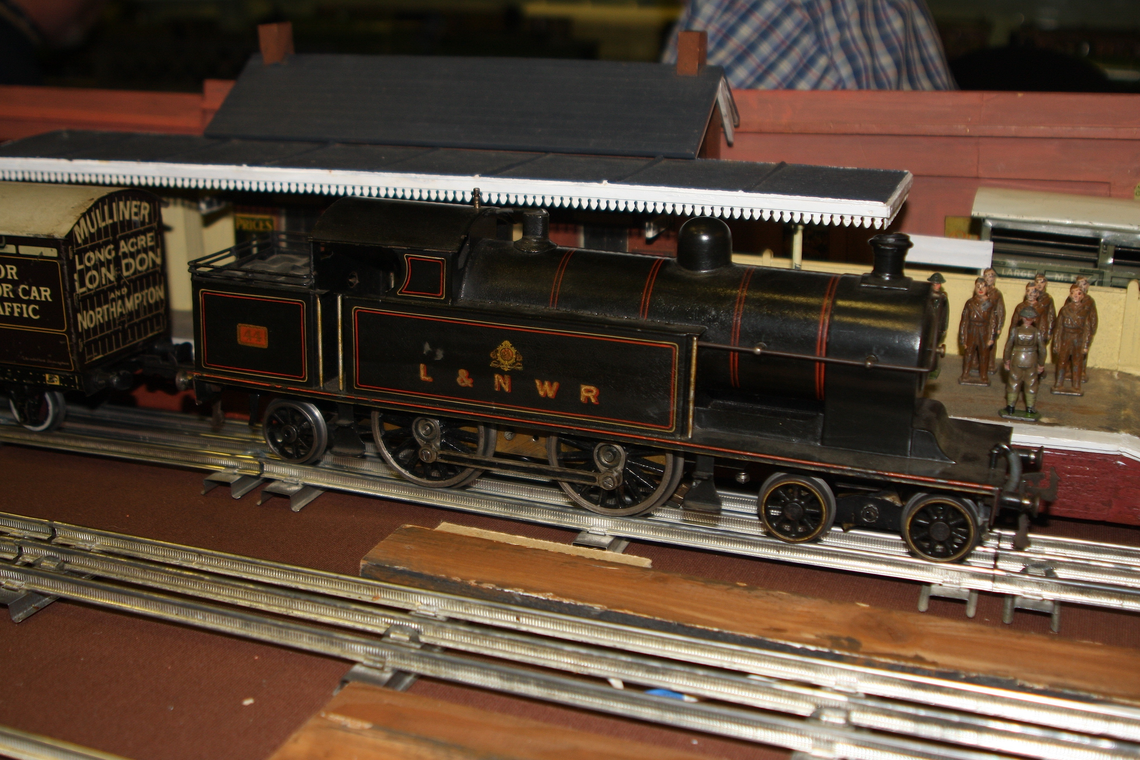 The joy of vintage tinplate electric trains in 2013.